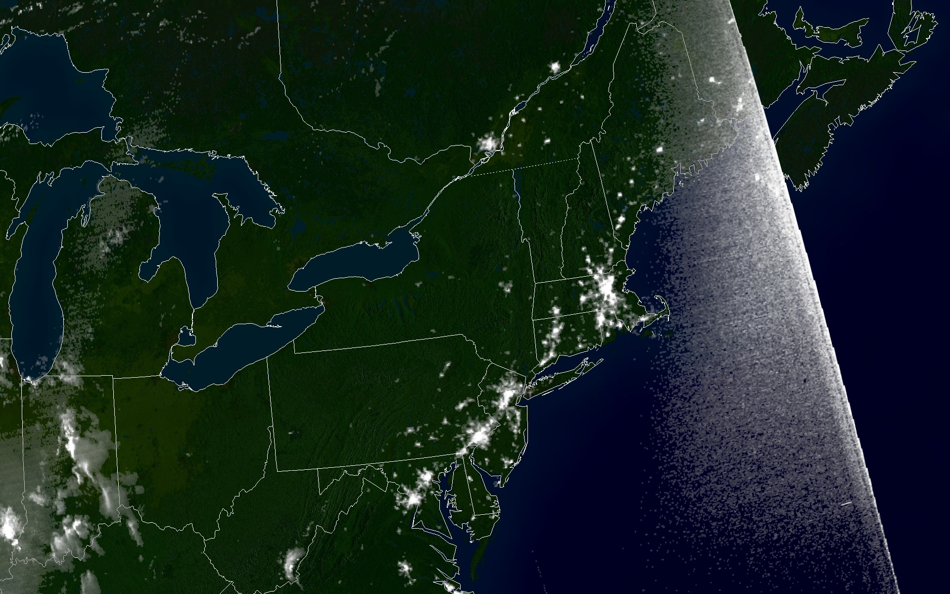 Satellite imagery from the Northeast blackout of 2003. This image shows light activity from the night of the blackout, August 14, at 9:03 p.m. EDT (081503-0103z). Imagery data provided by the National Oceanic and Atmospheric Administration and the Defense Meteorological Satellite Program. Note that the placement of the lights is about 25 miles west of their actual locations.